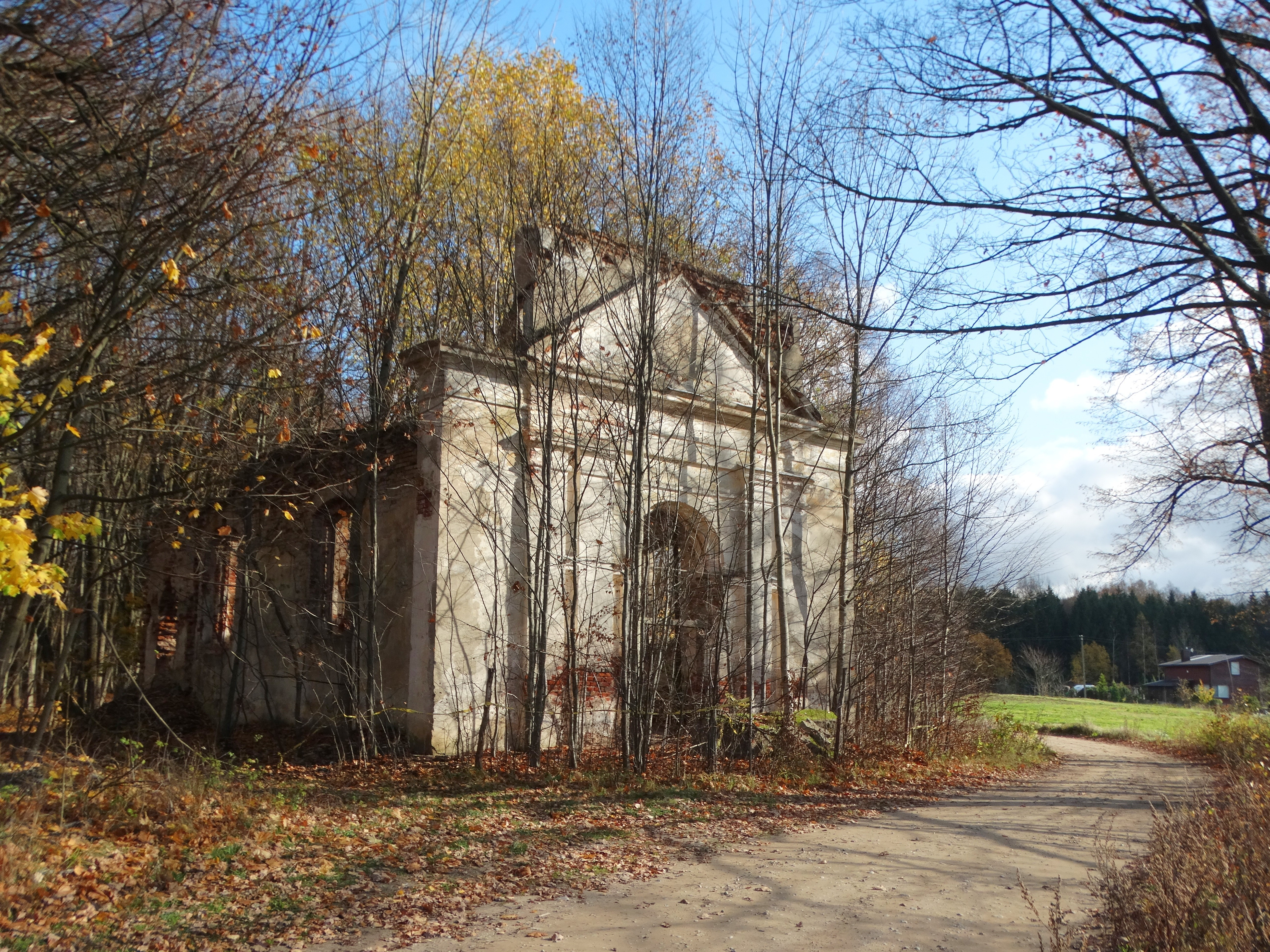 Former Digriai Chapel, Kaunas district, Lithuania